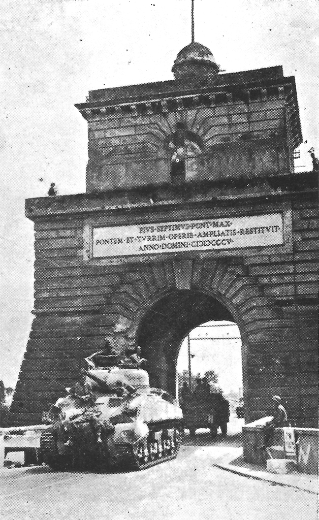 A Rhodesian-manned Sherman tank of the South African 6th Armoured Division, crossing the River Tiber during the capture of Rome in June 1944